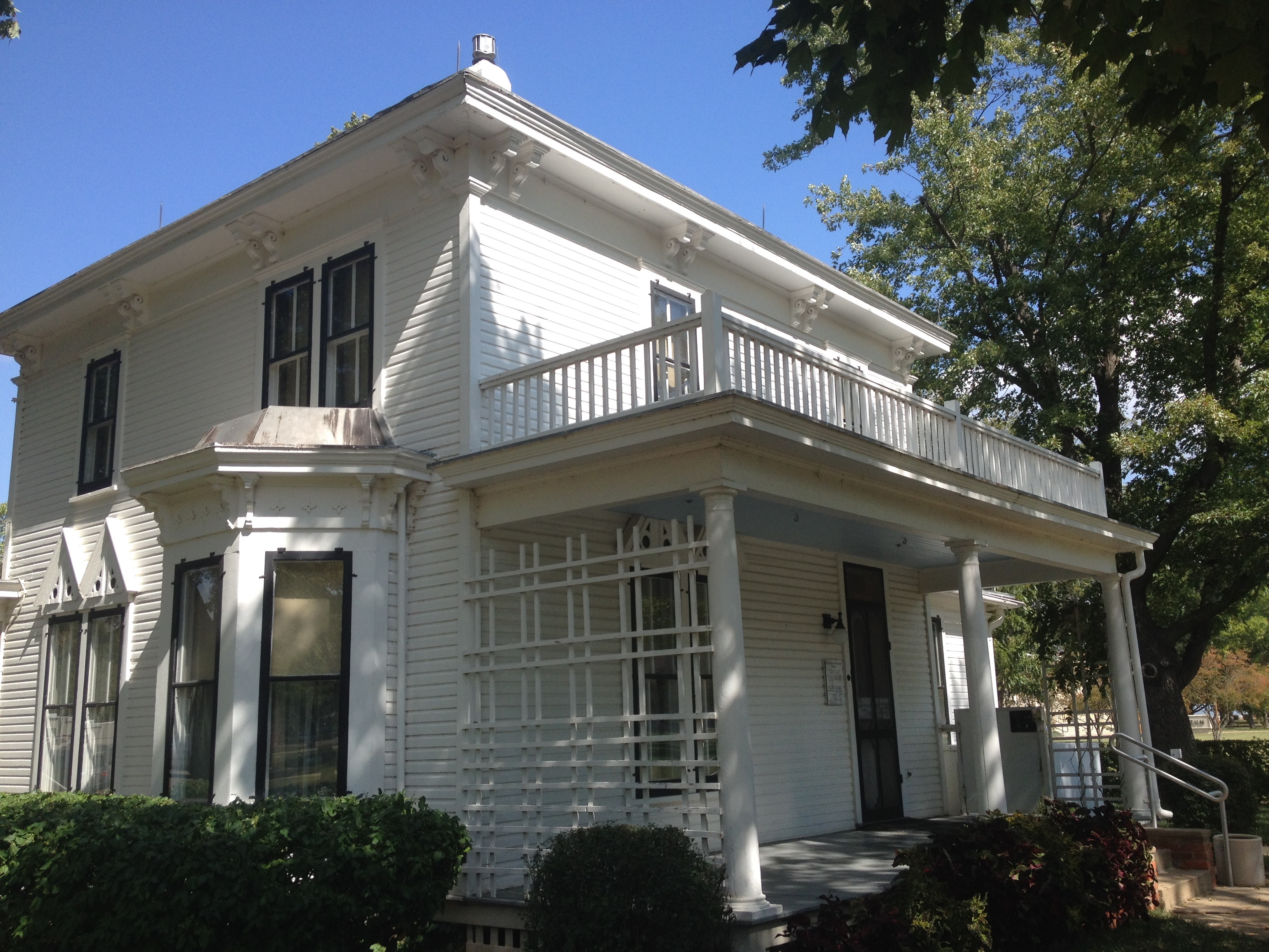 The house where Dwight D. Eisenhower grew up